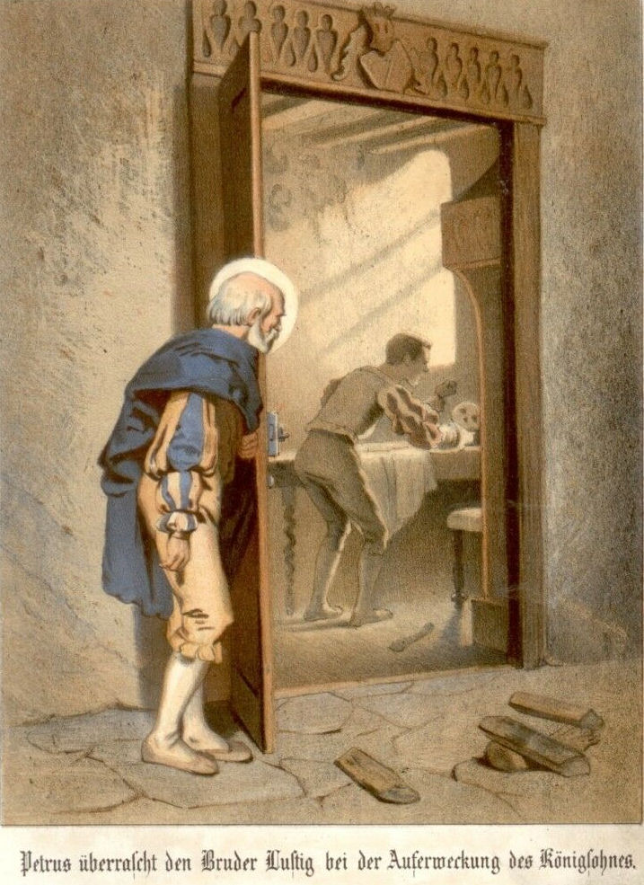 Illustration for 'Bruder Lustig' by Emil Hünten for 'Grimm's Fairy Tales' 1885